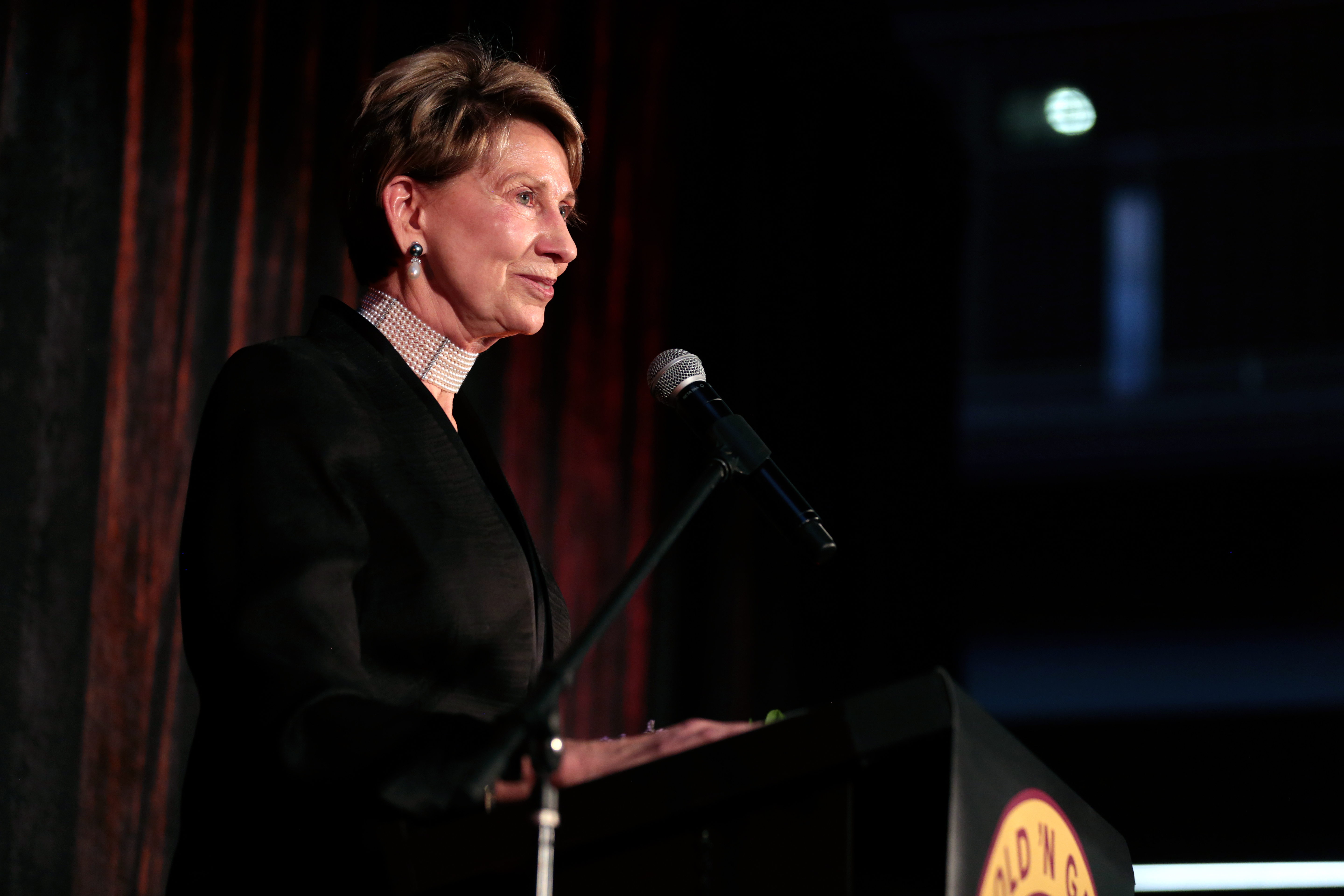 Former U.S. Ambassador to Finland Barbara Barrett speaking with attendees at the 5th Annual Gold N' Gavel Auction and Reception at the Beus Center for Law and Society at the Sandra Day O'Connor College for Law at Arizona State University in Phoenix, Arizona.